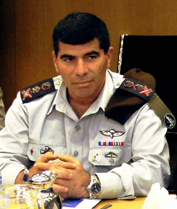 Secretary of Defense Robert M. Gates meets with Israeli Minister of Defense Amir Peretz in Tel Aviv, Israel, April 18, 2007. Gates is in Israel to meet with Israeli leaders including Prime Minister Ehud Olmert to discuss the Middle East conflict.